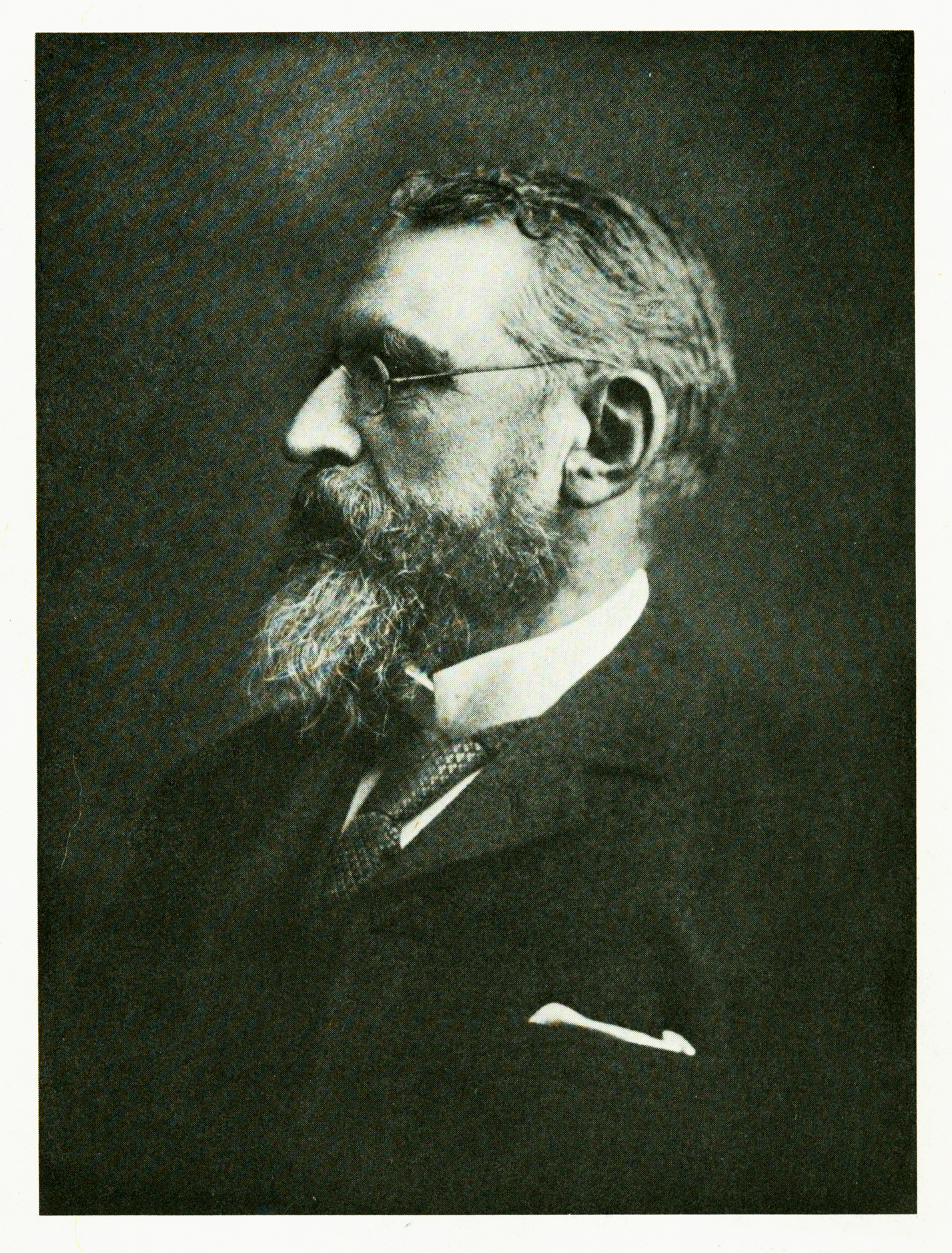 Image of William O'Brien MP, (1852–1928), Irish politician, journalist, social revolutionary, author and Member of Parliament in the Parliament of the United Kingdom of Great Britain and Ireland.